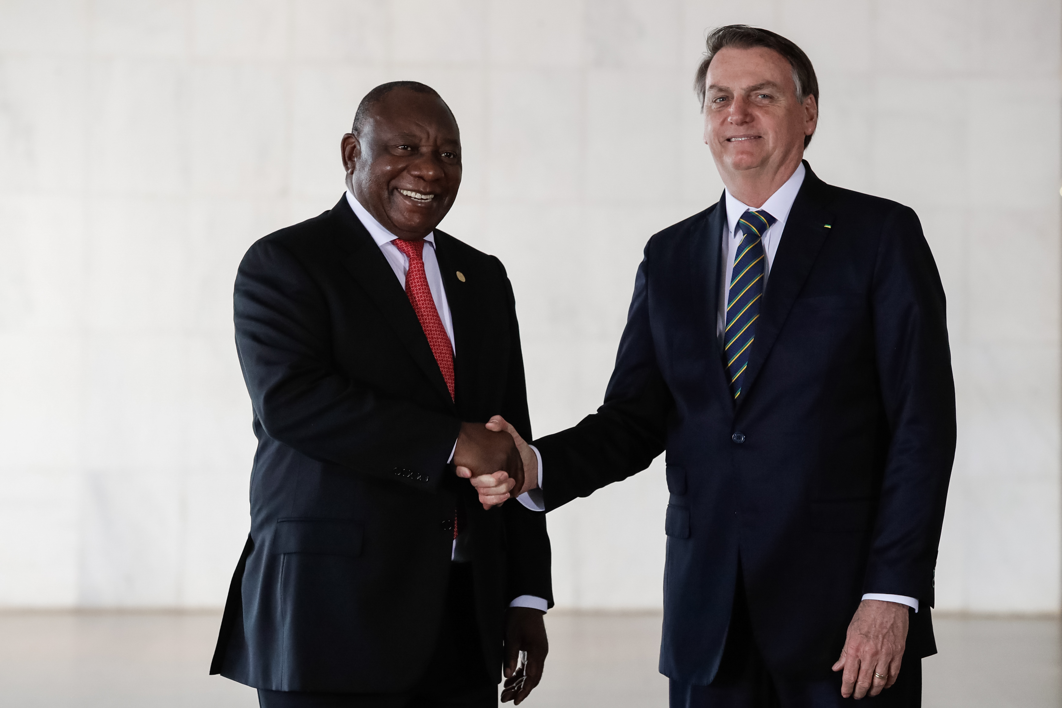 (Brasília - DF, 14/11/2019) Presidente da República, Jair Bolsonaro recebe o Presidente da República da África do Sul, Cyril Ramaphosa. Foto: Alan Santos/PR